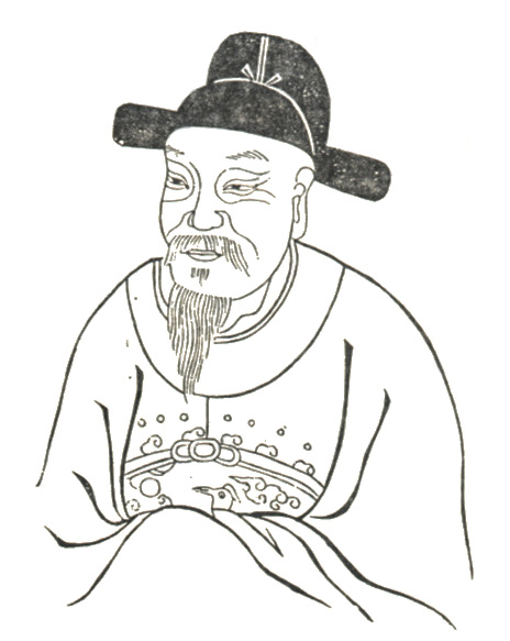 Cai Yong, jinshi of the Ming Dynasty.